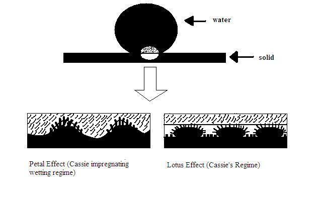 Petal effect vs. lotus effect schematic